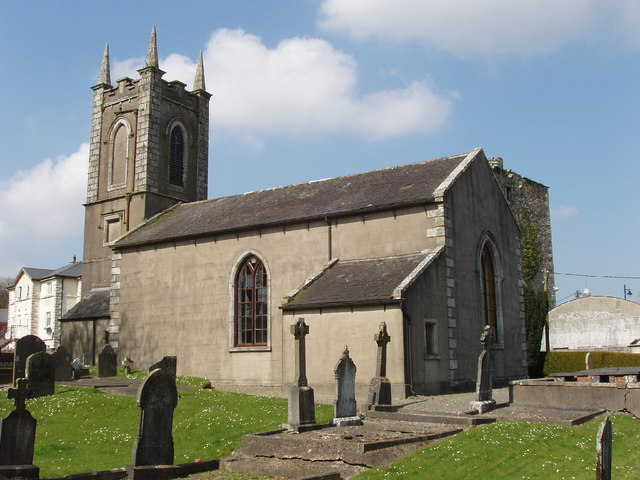 St Munn's church, Taghmon. In the Church of Ireland, Wexford Union